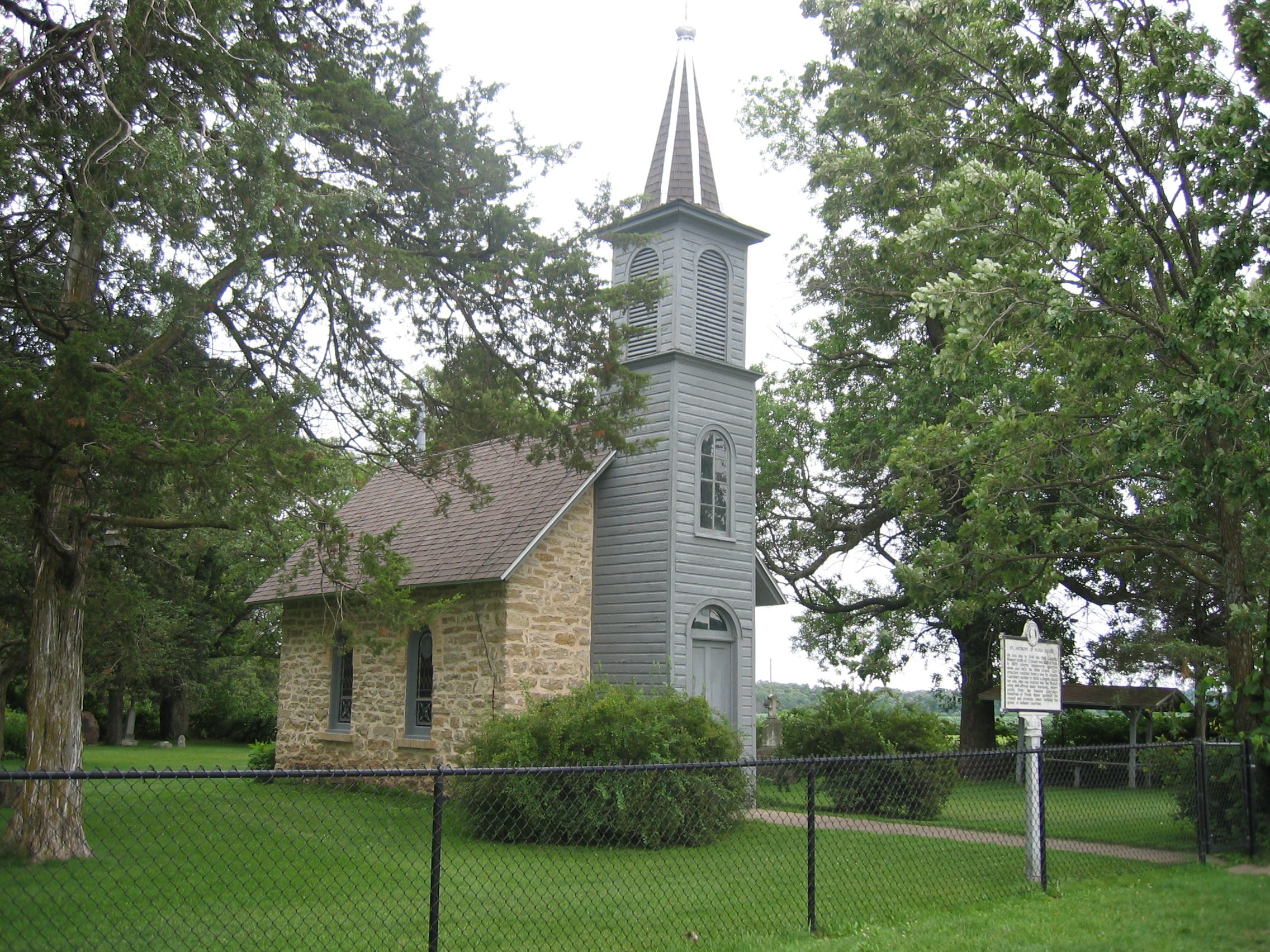 St. Anthony of Padua Chapel - World's Smallest Church